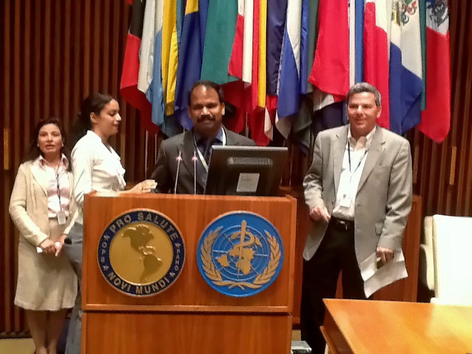 P. Vijayan IPS at Meeting of Johns Hopkins University, Baltimore